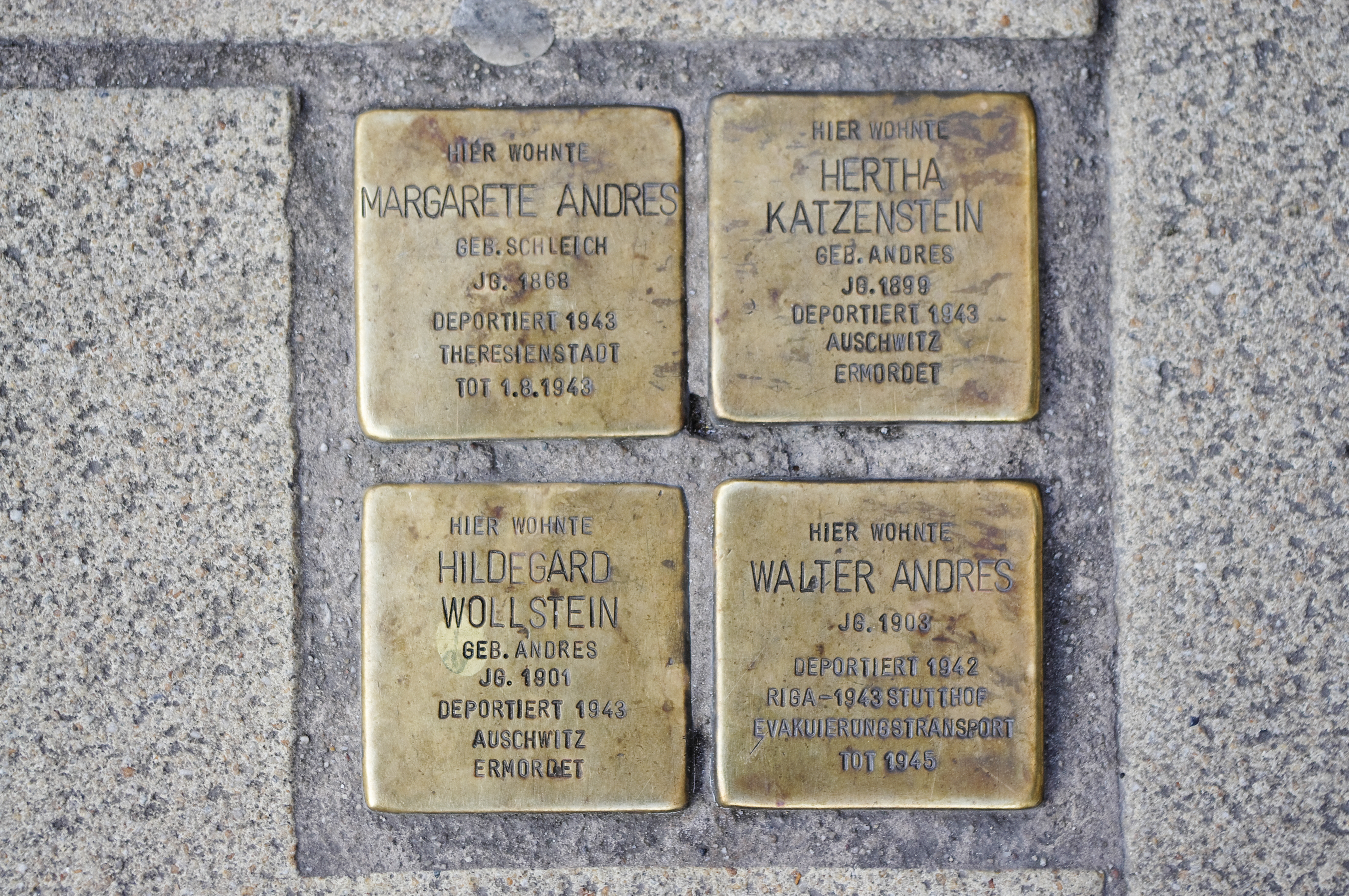 Stolpersteine at house Köln-Berliner-Straße 13 in Dortmund, Germany